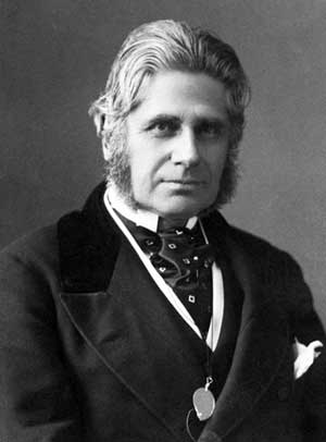 Portrait of Pitt-Rivers in the 1880s. Courtesy of the Pitt Rivers Museum (PRM 2012.33.1).